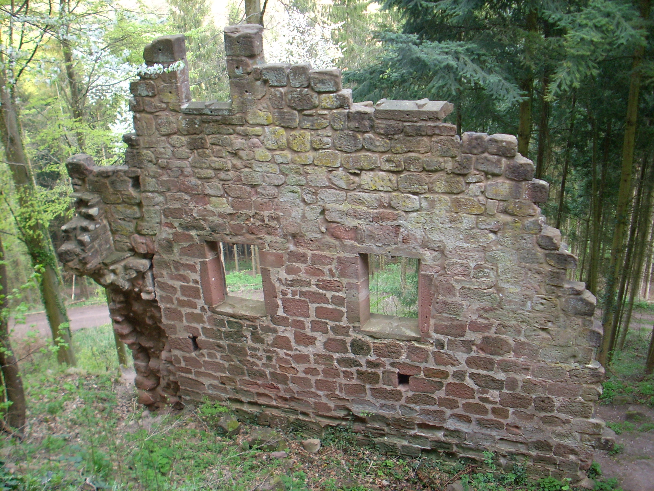 Vieux-Windstein castle, Alsace